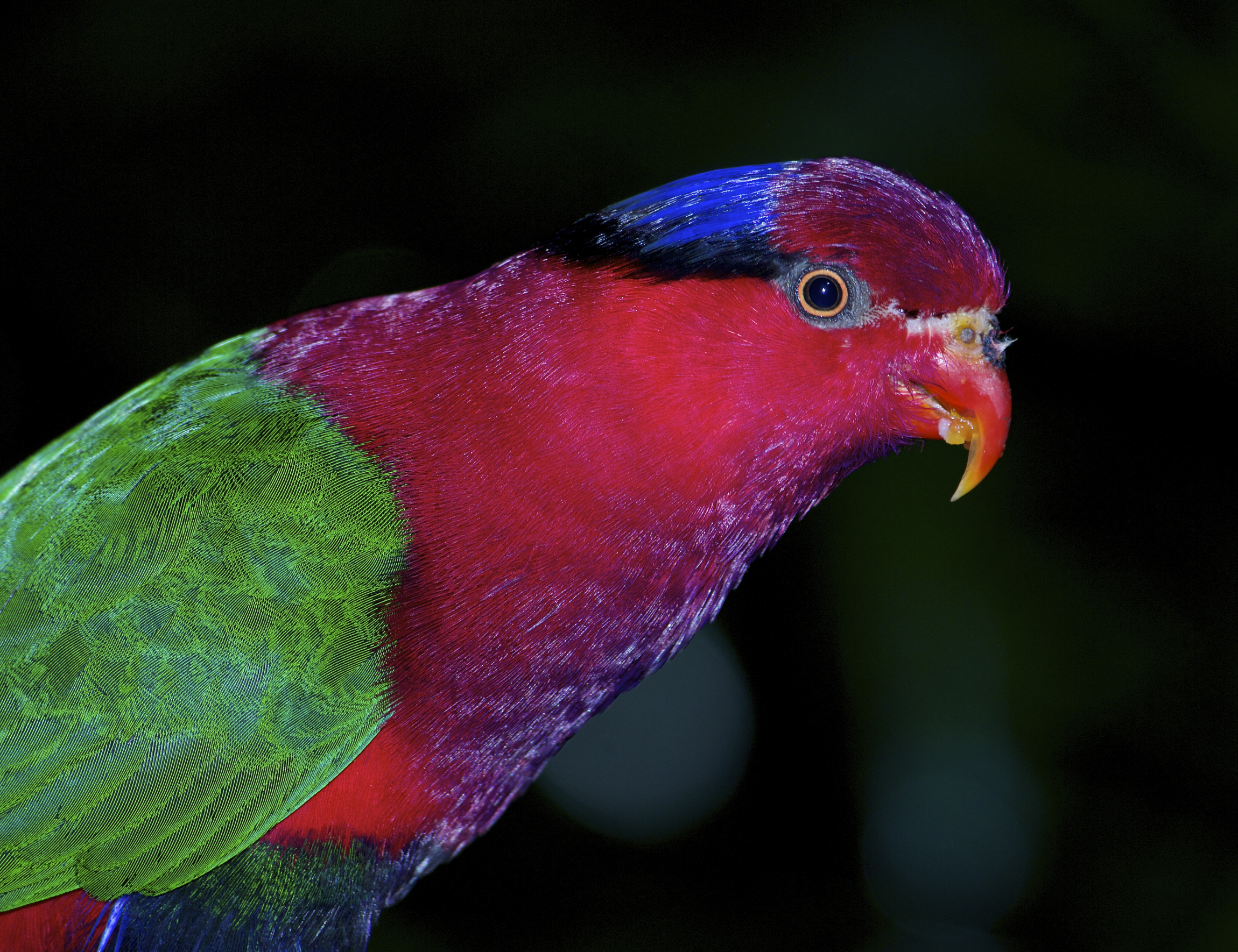 Charmosyna stellae Stella Lorikeet